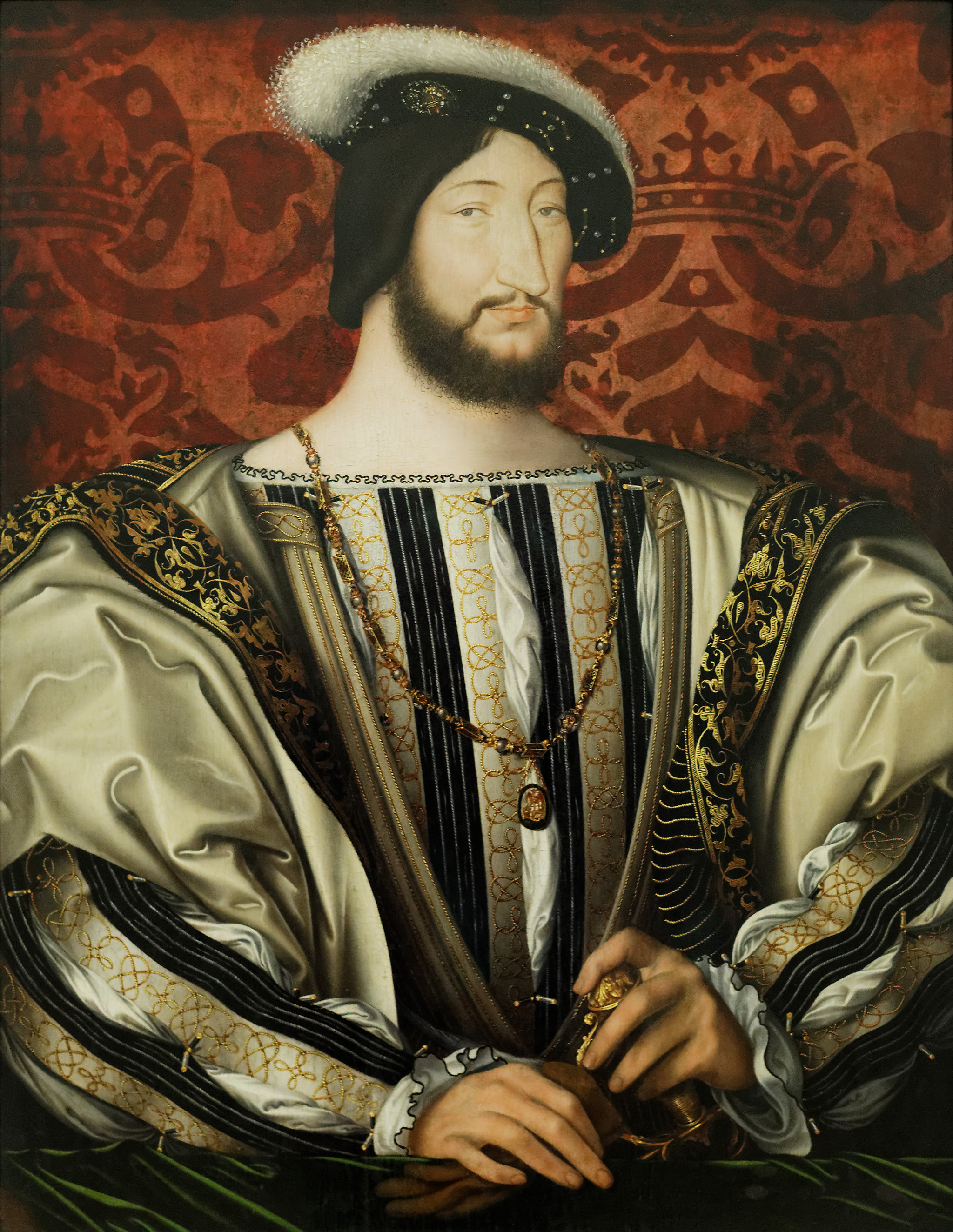 without frame